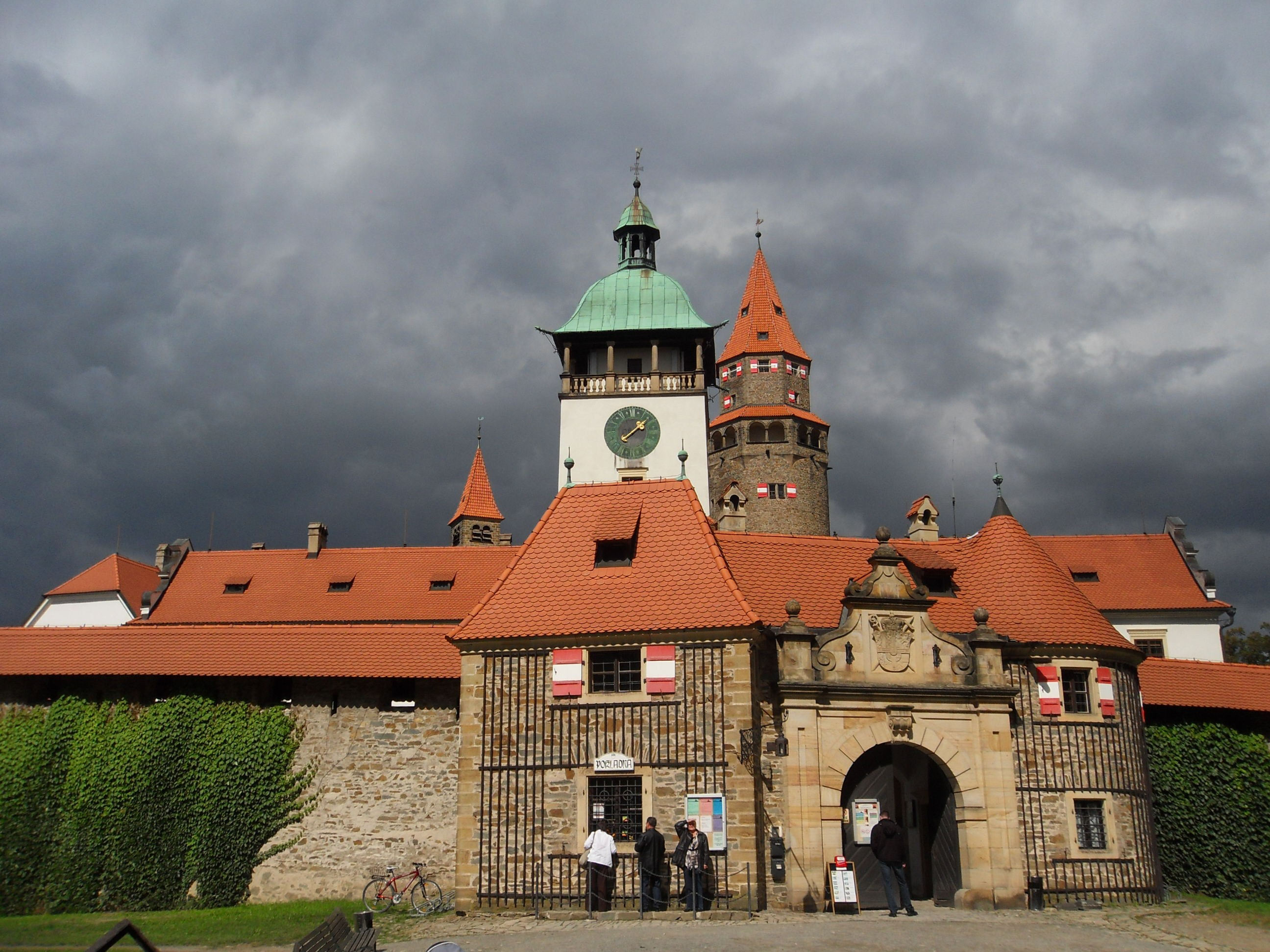 Bouzov castle, Bouzov, Olomouc district, Czech Republic